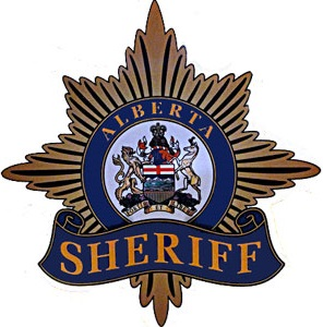 Alberta Sheriff Heraldic badge